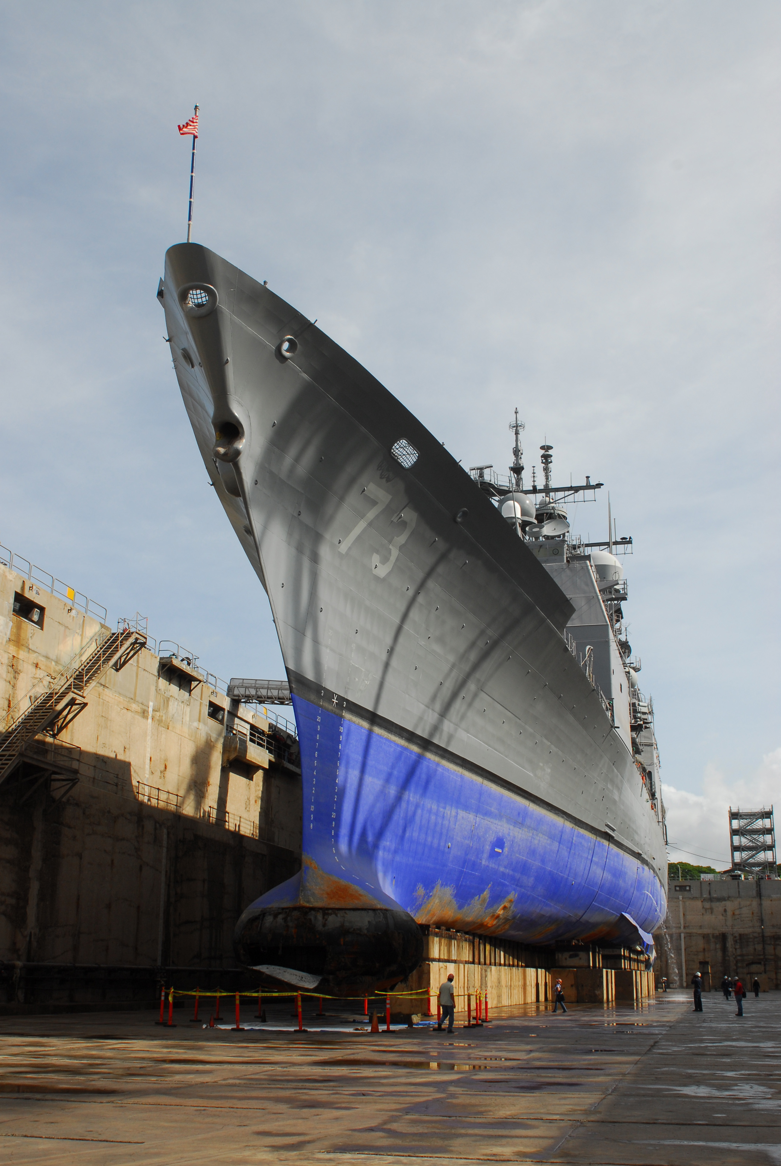 090219-N-4003L-001 PEARL HARBOR (Feb. 19, 2009) The guided-missile cruiser USS Port Royal (CG 73) sits in drydock at the Pearl Harbor Naval Shipyard as it is readied for repairs following the Feb. 5 grounding about a half-mile south of Honolulu Airport. An assessment of the ship and the repair efforts needed are ongoing. The ship entered drydock Feb. 18. (U.S. Navy photo by Michael F. Laley/Released)